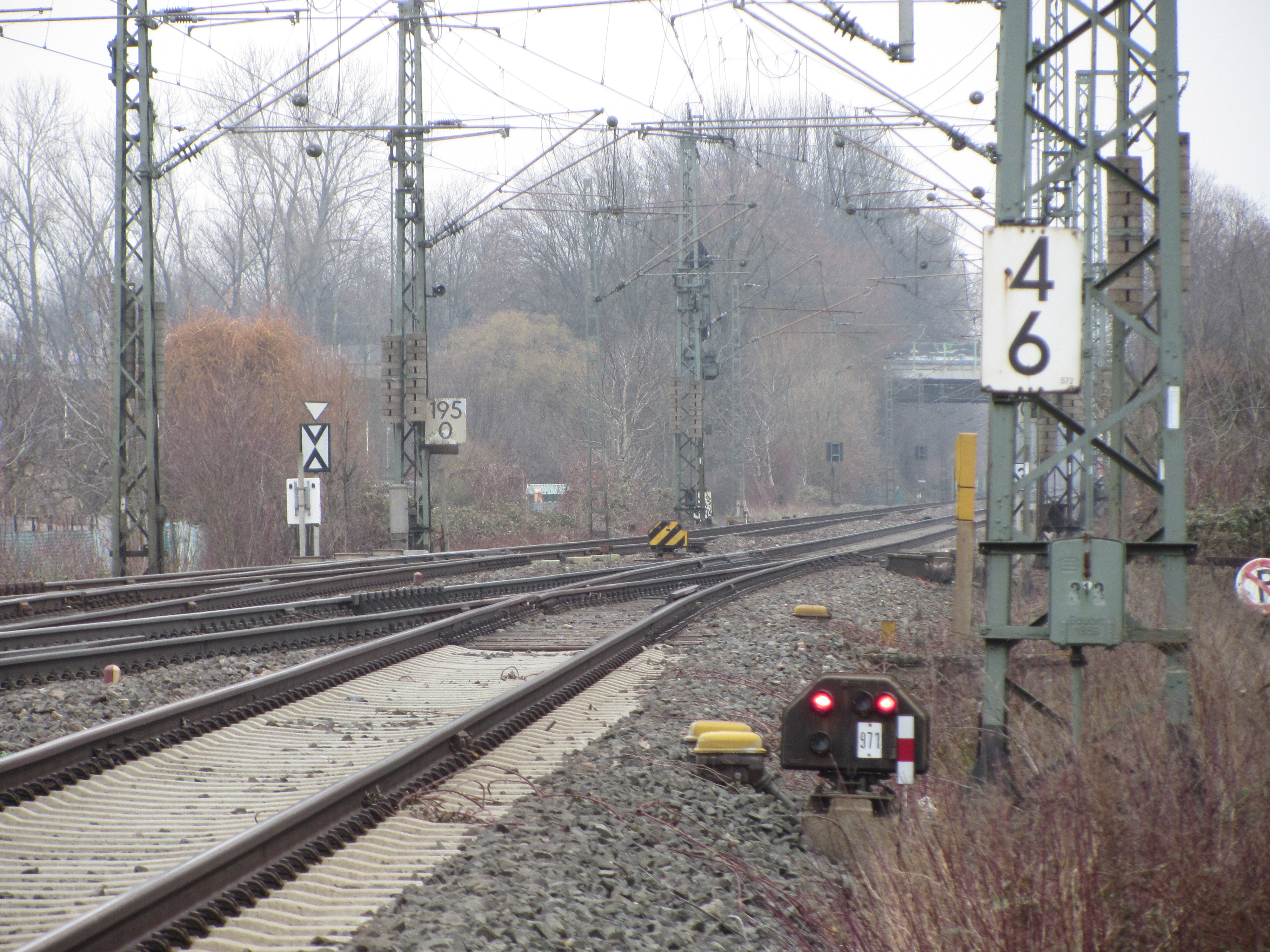 provisional end of line 3684 for the S-Bahn Rhein-Main line from Frankfurt-West to Friedberg at km 4.6 in Frankfurt-Bockenheim